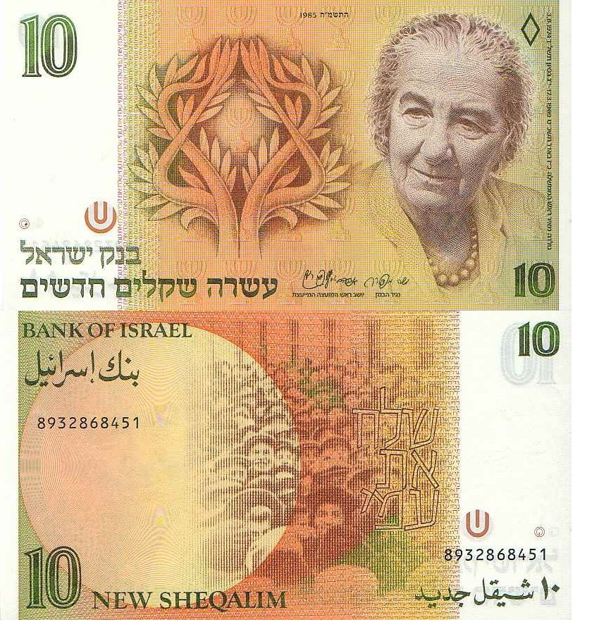 Obverse & Reverse side of a 10 new shekel bill, paper.